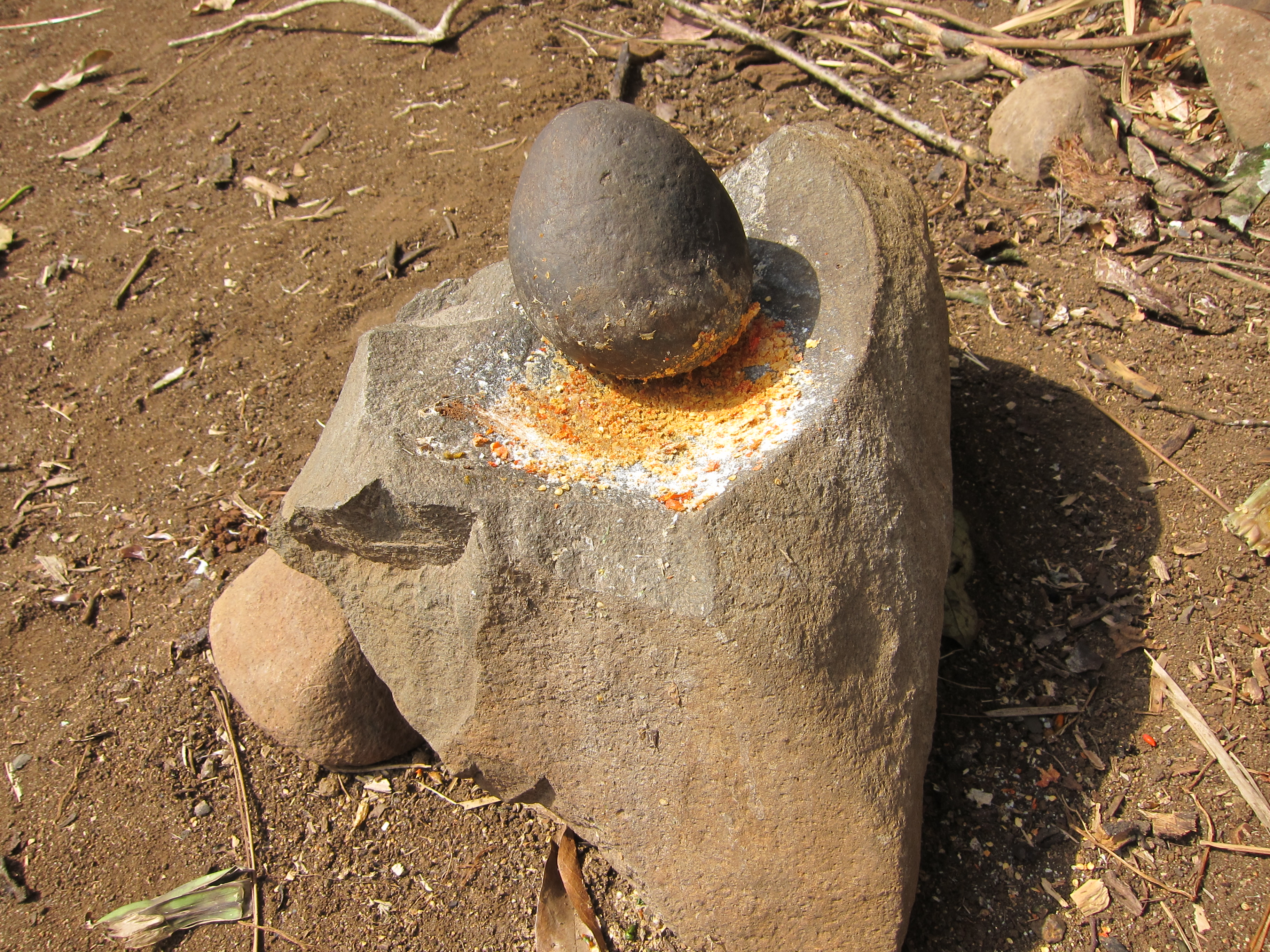 Mitmita being made in mortar and pestle - SW Ethiopia